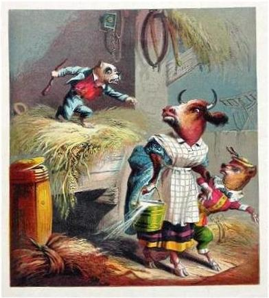 A chromolithograph of The Dog in the Manger from a McLoughlin Brothers book for children, New York, 1880